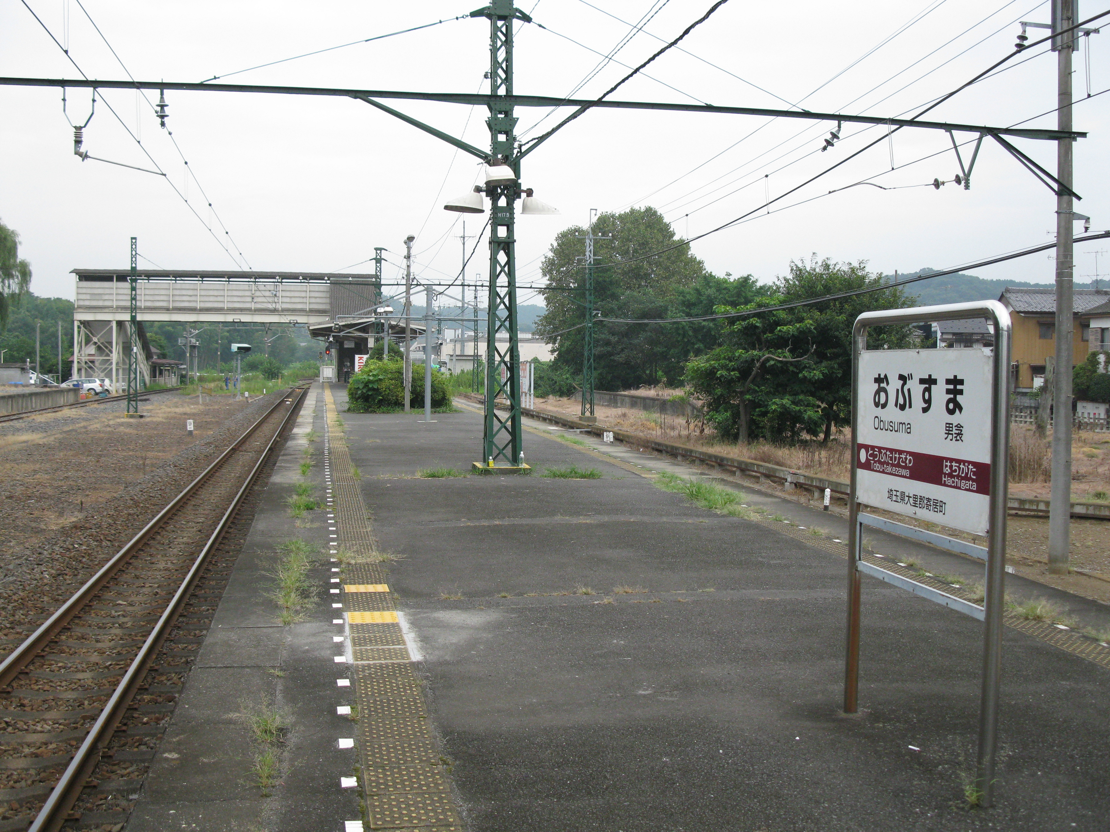 The platform at Obusuma Station on the Tobu Tojo Line in Yorii, Saitama, Japan